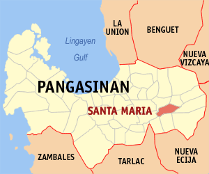 Map of Pangasinan showing the location of Santa Maria